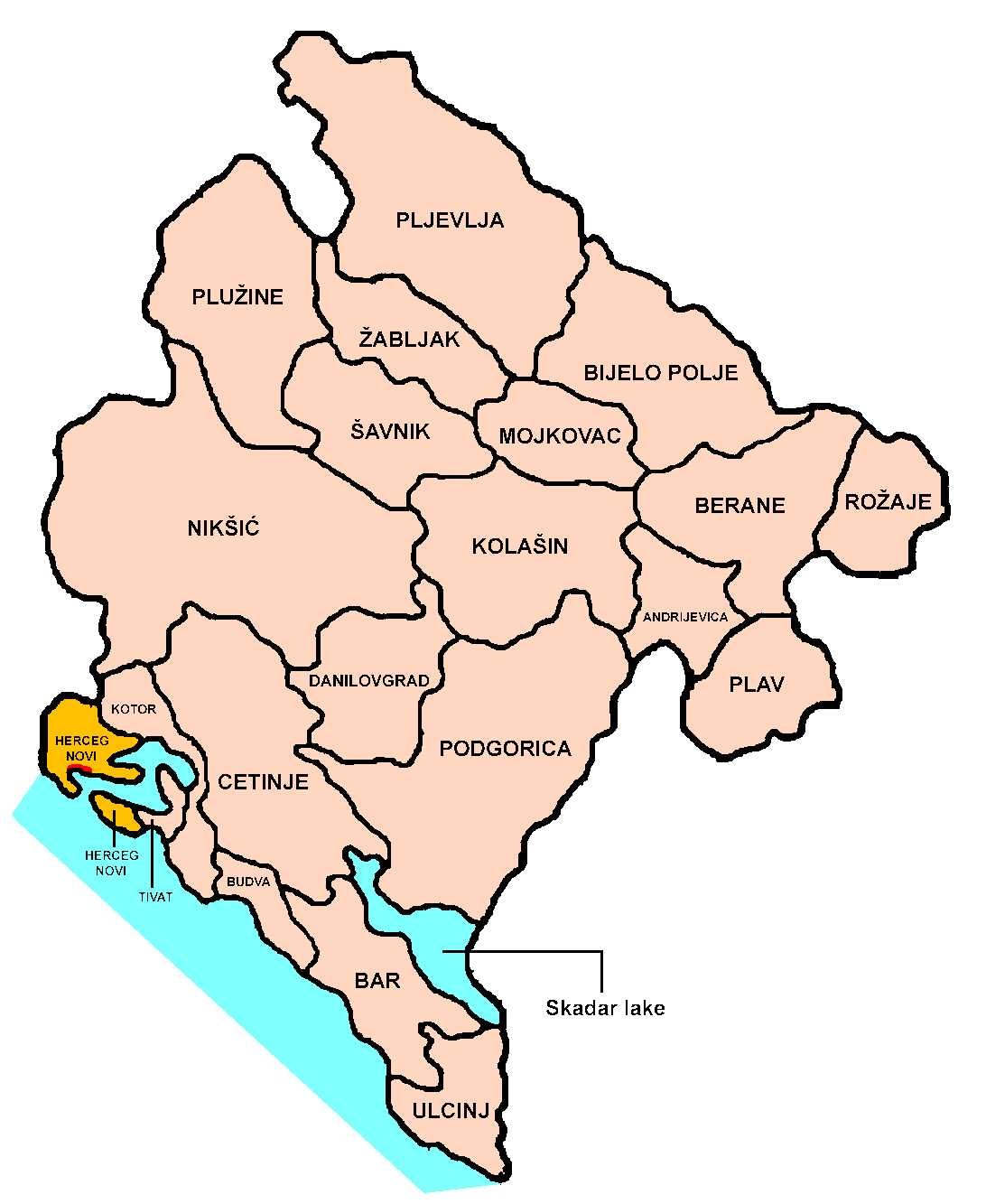 Location of Herceg Novi town and municipality within Montenegro